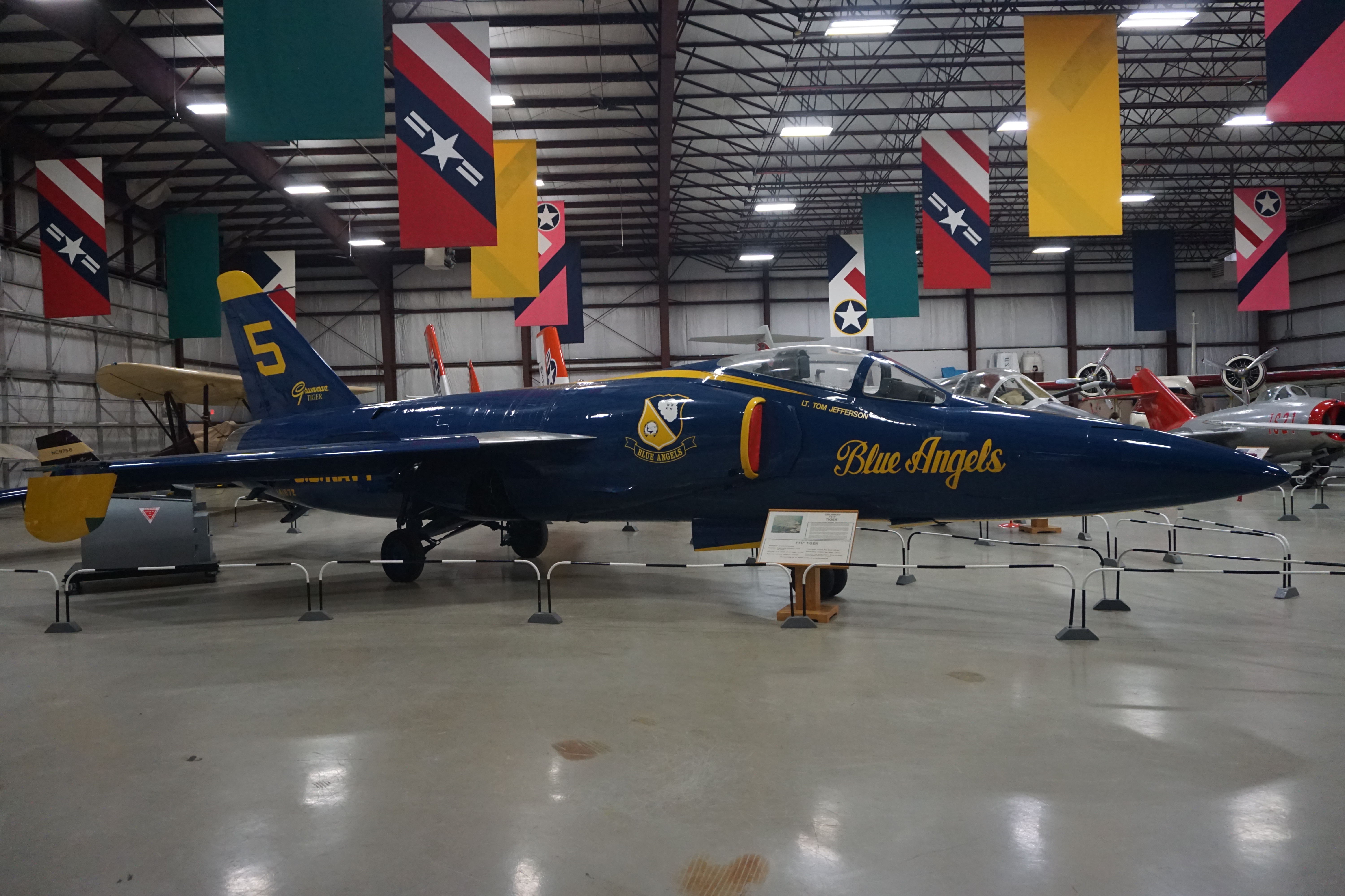 A Grumman F11F Tiger on display at the Air Zoo at Kalamazoo/Battle Creek International Airport in Portage, Michigan (United States).